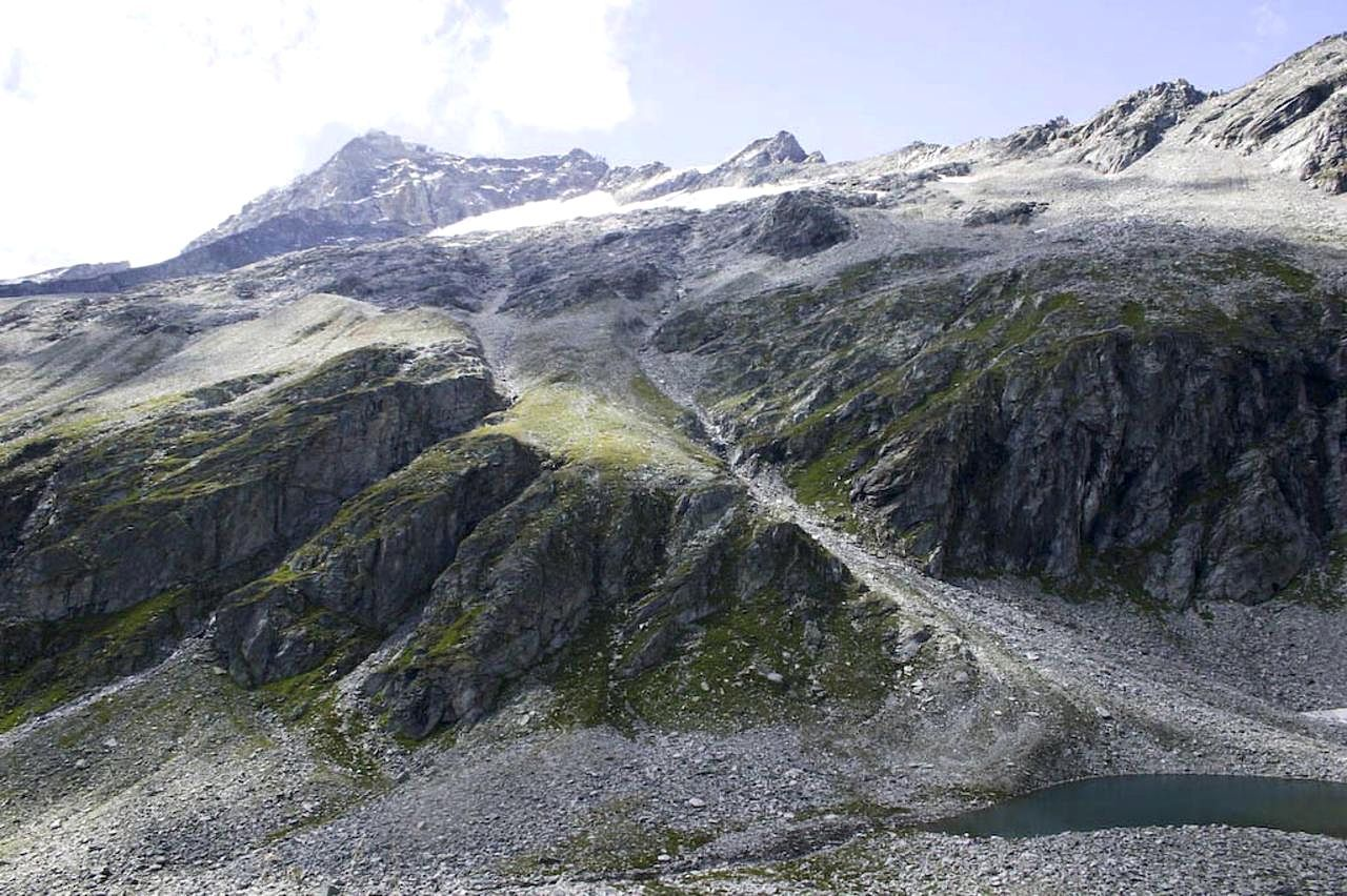 Image title: Asian mountains Image from Public domain images website